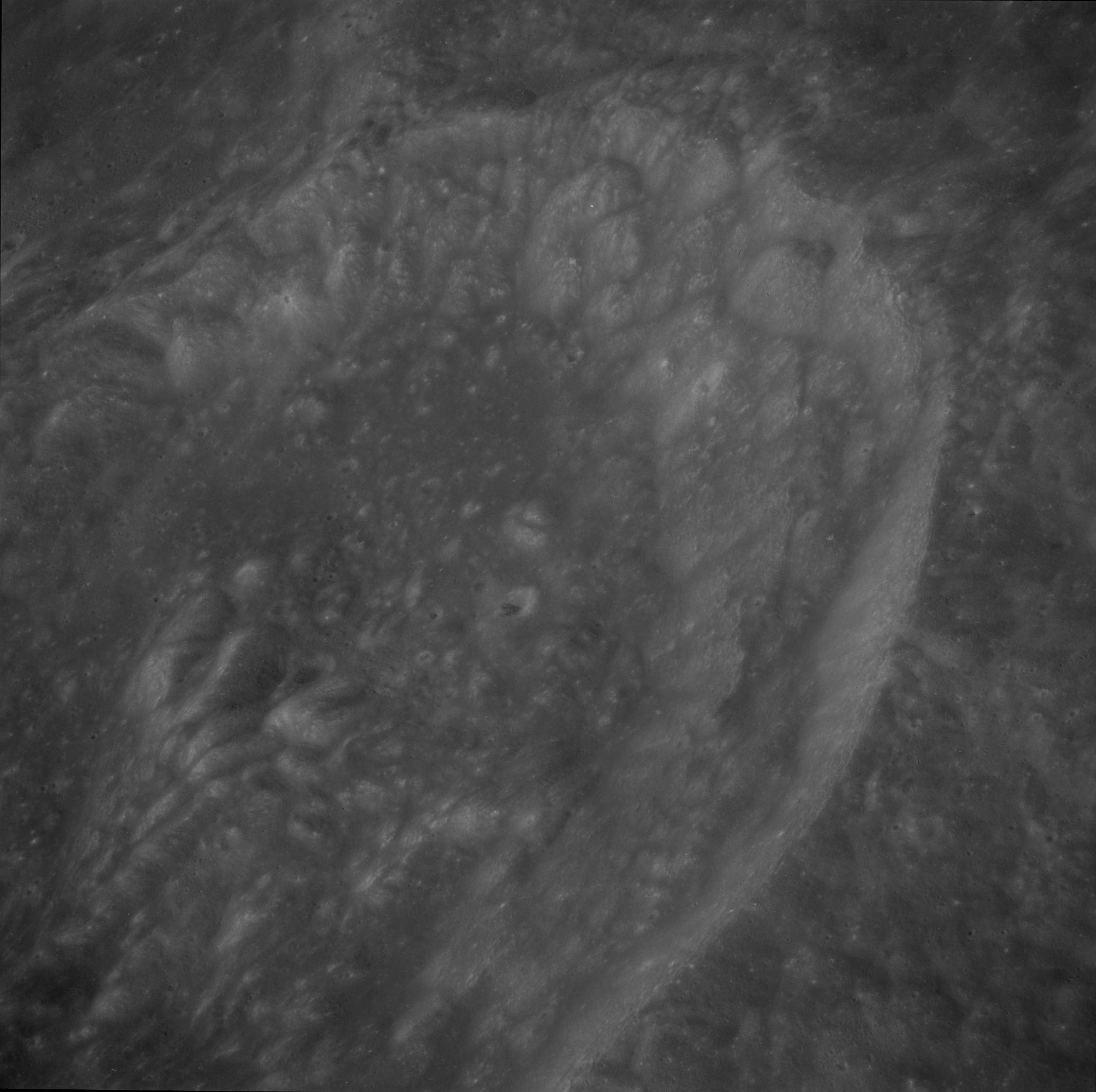 Oblique view of part of Mandel'shtam R crater, on the southwest rim of Mandel'shtam, on the far side of the moon.